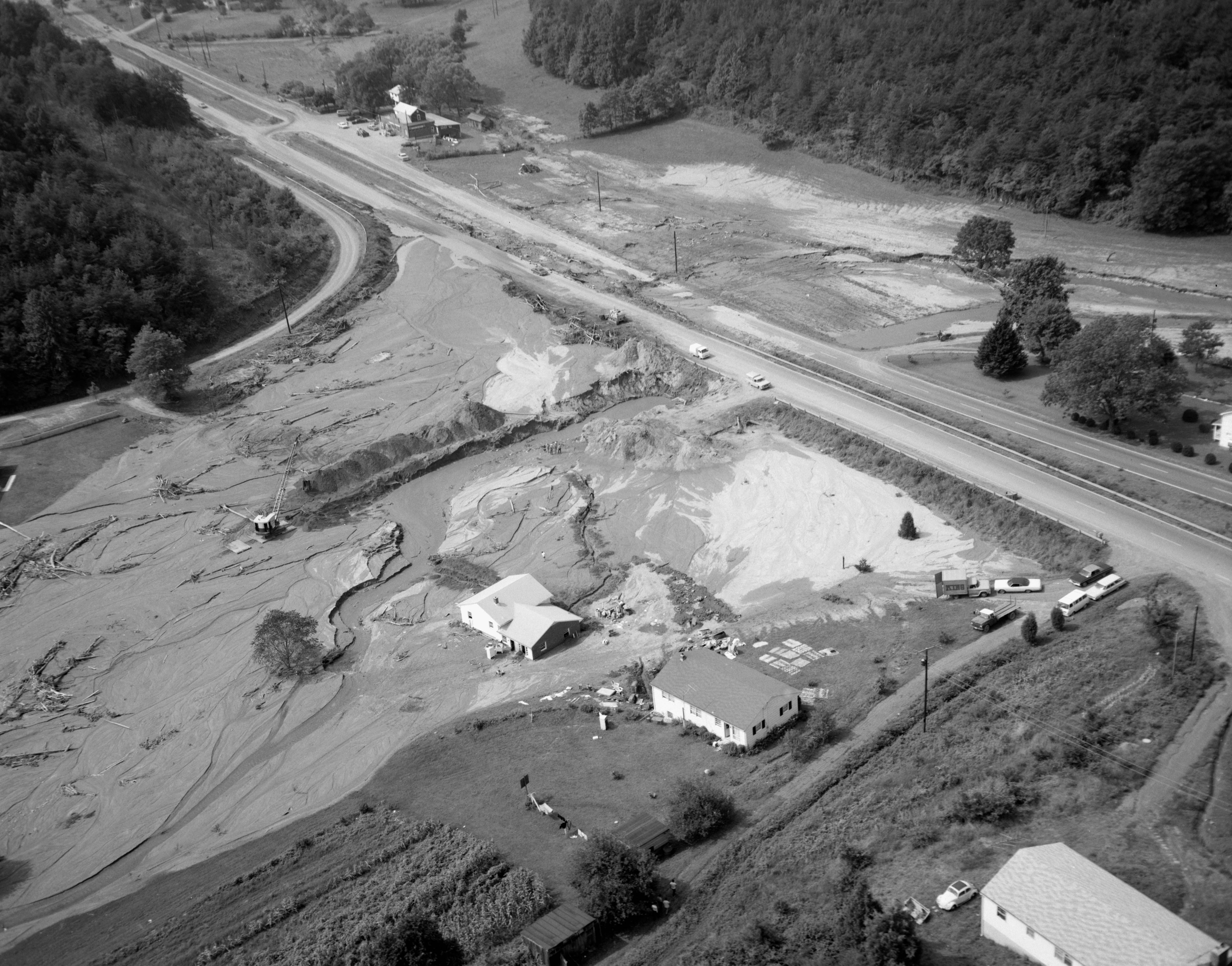 Mudslides in Nelson County left devastated many homes, such as the ones seen in this aerial view along Rt. 29. No. 69-2308, Virginia Governor's Negative Collection, Library of Virginia.